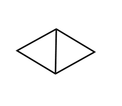 biciclo[1.1.0]butano